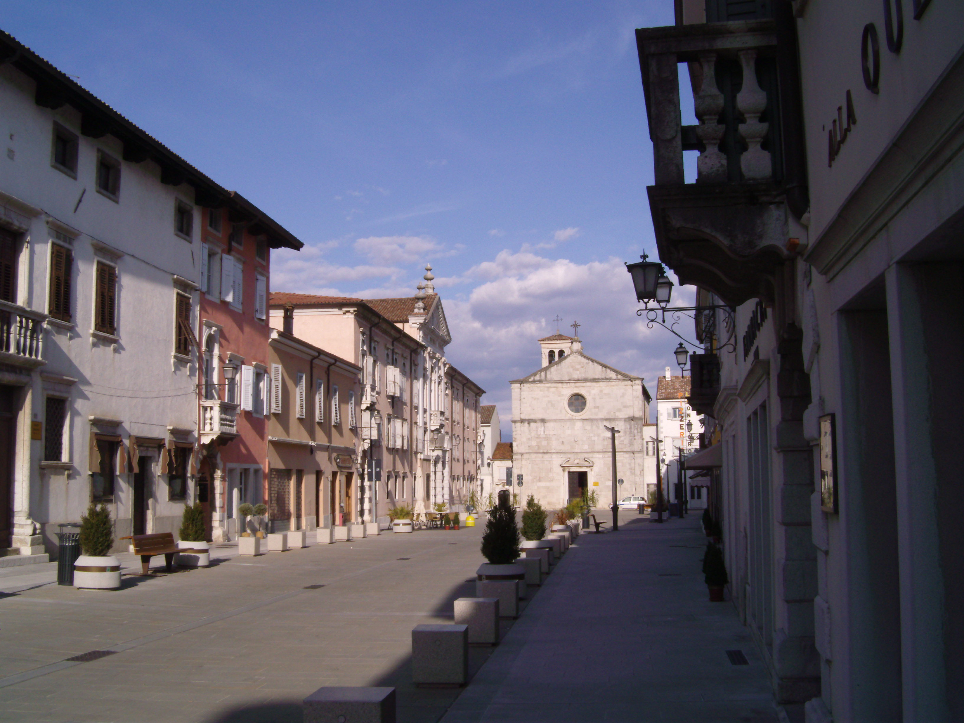 This is the main street in the old town center